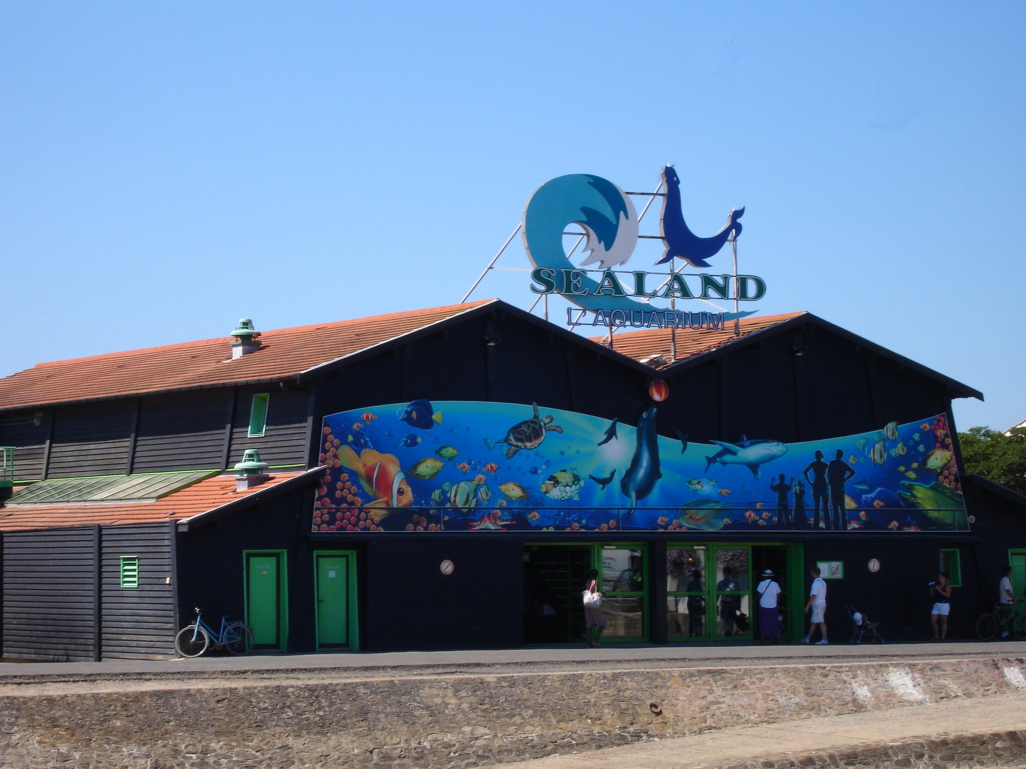 France, AVendée (85), Aquarium Sealand de Noirmoutier